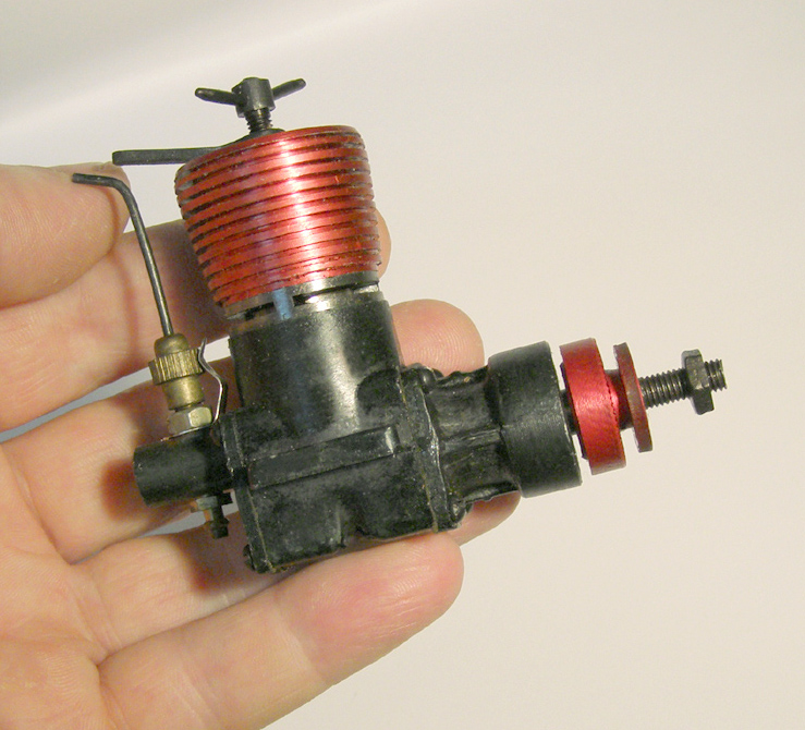 USSR model engine MK-12W